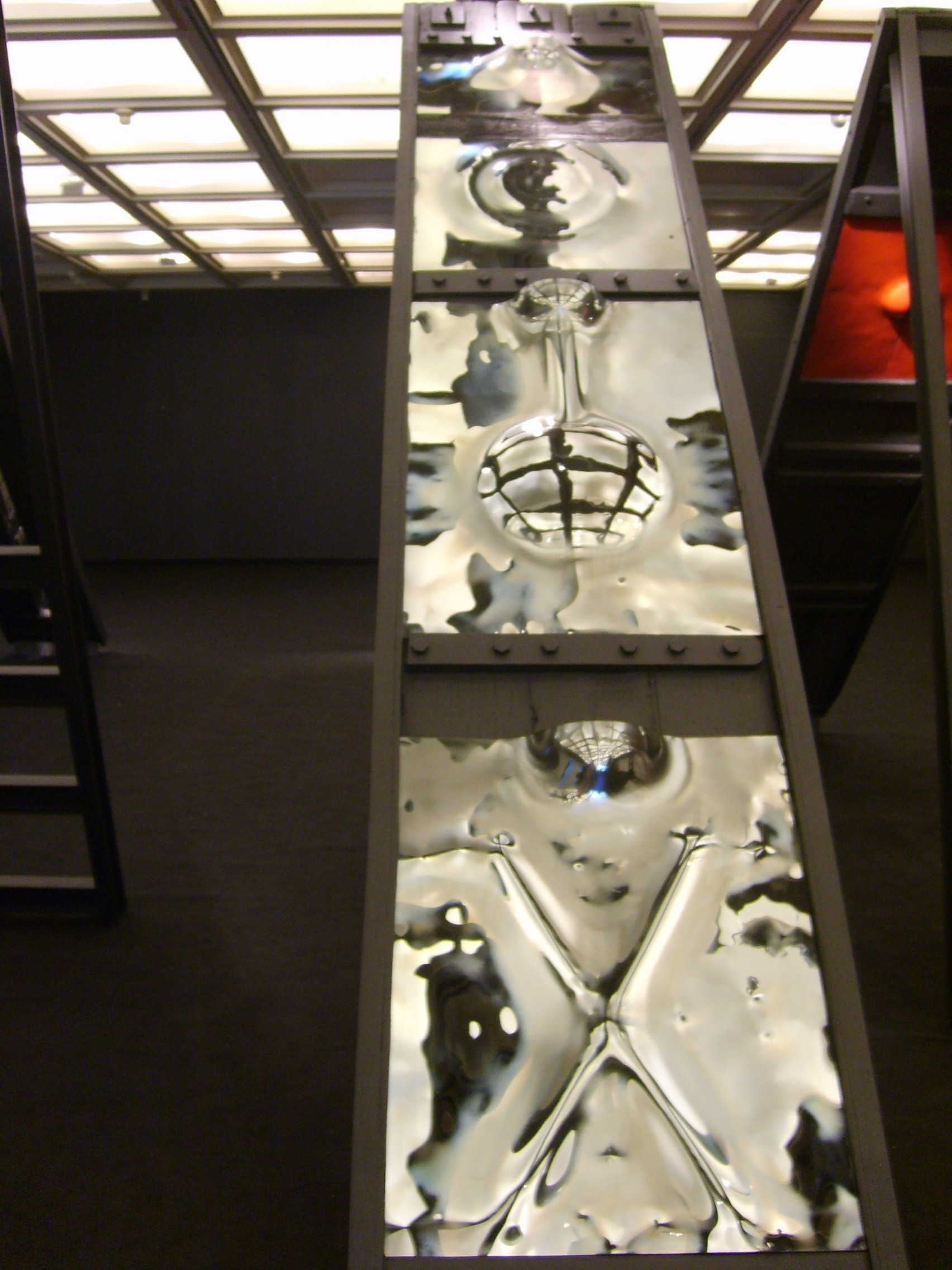 Arborescencias, by Águeda Dicancro, at the National Museum of Visual Arts (MNAV).